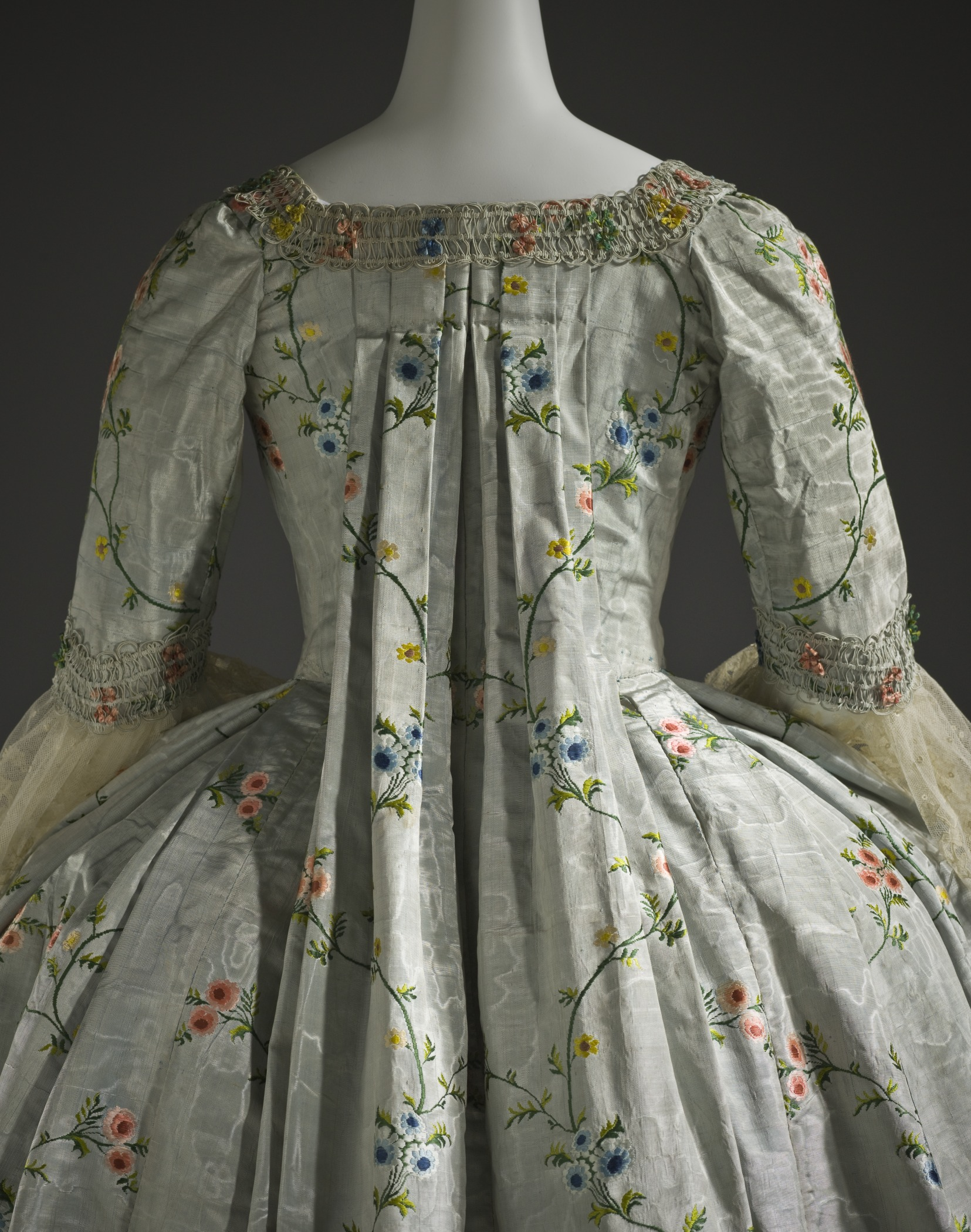 Probably The Netherlands, circa 1775 Costumes; principal attire (entire body) Silk plain weave (faille) with supplementary weft-float patterning, moiré finish, and silk passementerie with silk fly fringe a) Center back robe length: 62 in. (157.48 cm); b) Center back petticoat length: 34 1/4 in. (86.995 cm) Purchased with funds provided by Suzanne A. Saperstein and Michael and Ellen Michelson, with additional funding from the Costume Council, the Edgerton Foundation, Gail and Gerald Oppenheimer, Maureen H. Shapiro, Grace Tsao, and Lenore and Richard Wayne (M.2007.211.926a-b) Costume and Textiles